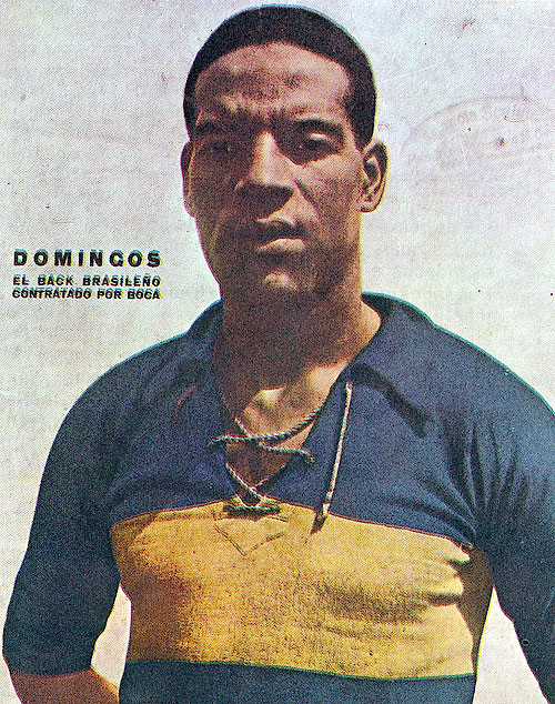 Brazilian footballer Domingos da Guia during his time with Boca Juniors in Argentina (1935-1937)